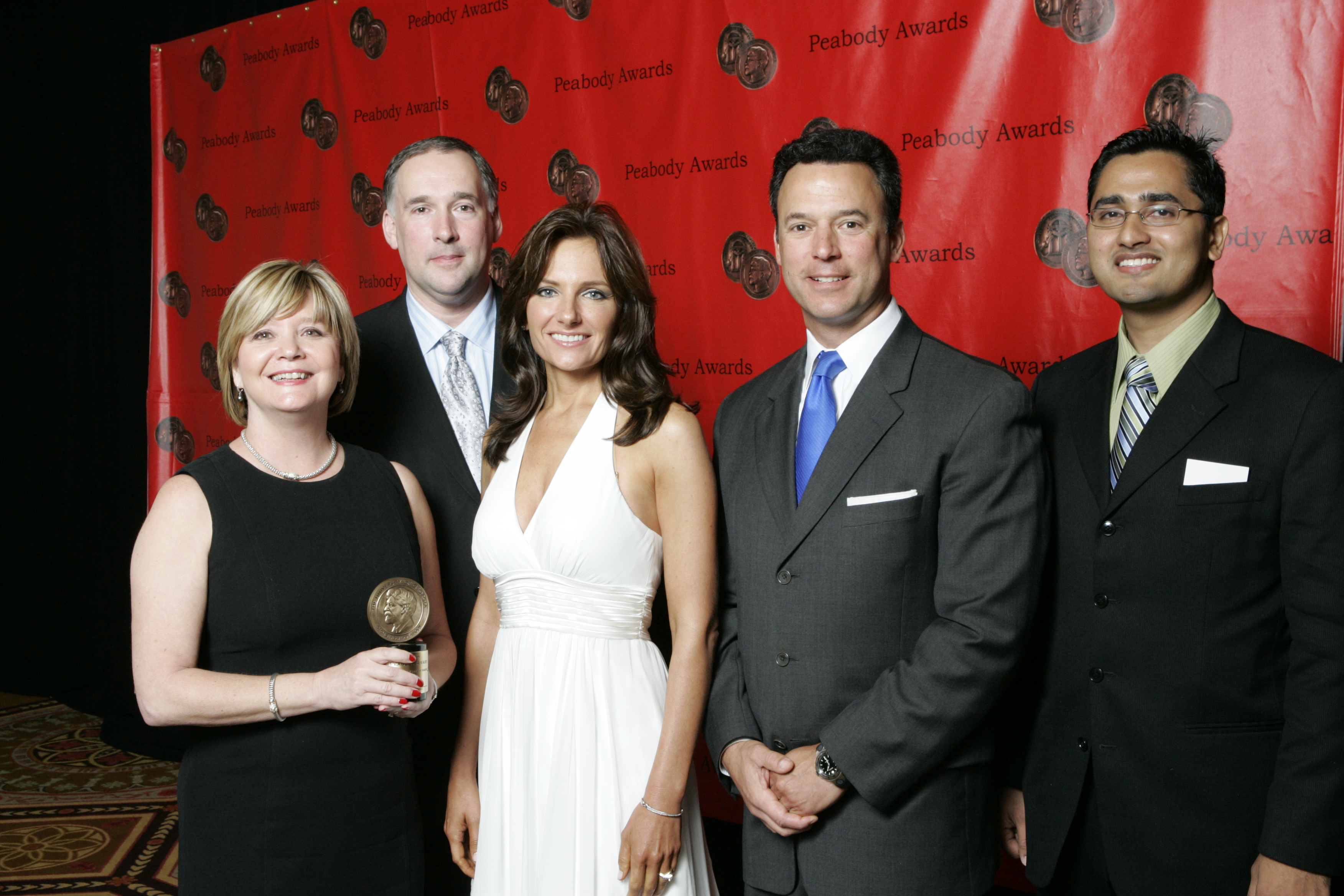 Susan D'Astoli, Joe Hengemuehler, Lisa Fletcher, Jonathan Elias and Vivek Narayan 67th Annual Peabody Awards Luncheon Waldorf=Astoria Hotel New York, NY USA June 16, 2008